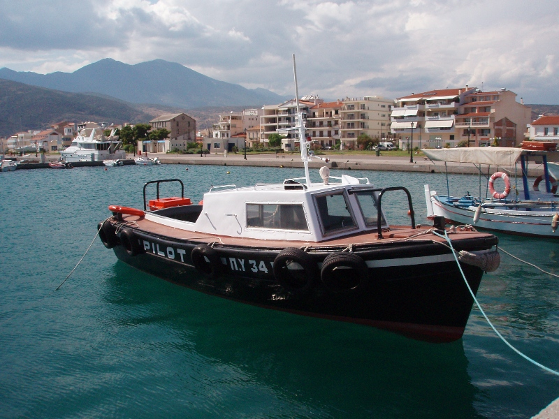 Pilot boat PY-34 (ΠΥ 34) of Itea Port, Greece.